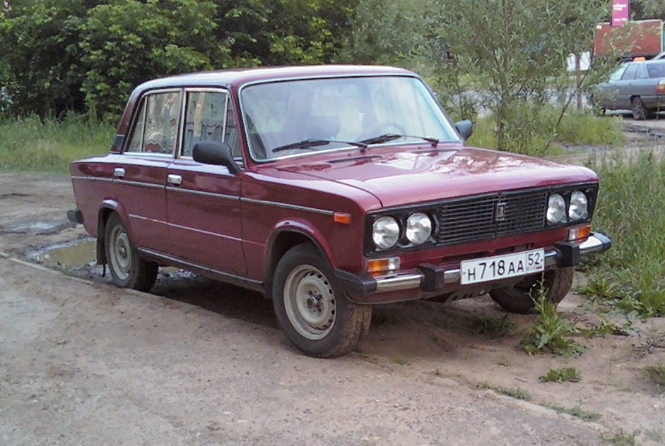 VAZ-2106 photographed in Nizhny Novgorod, Russia in the Golubeva street.